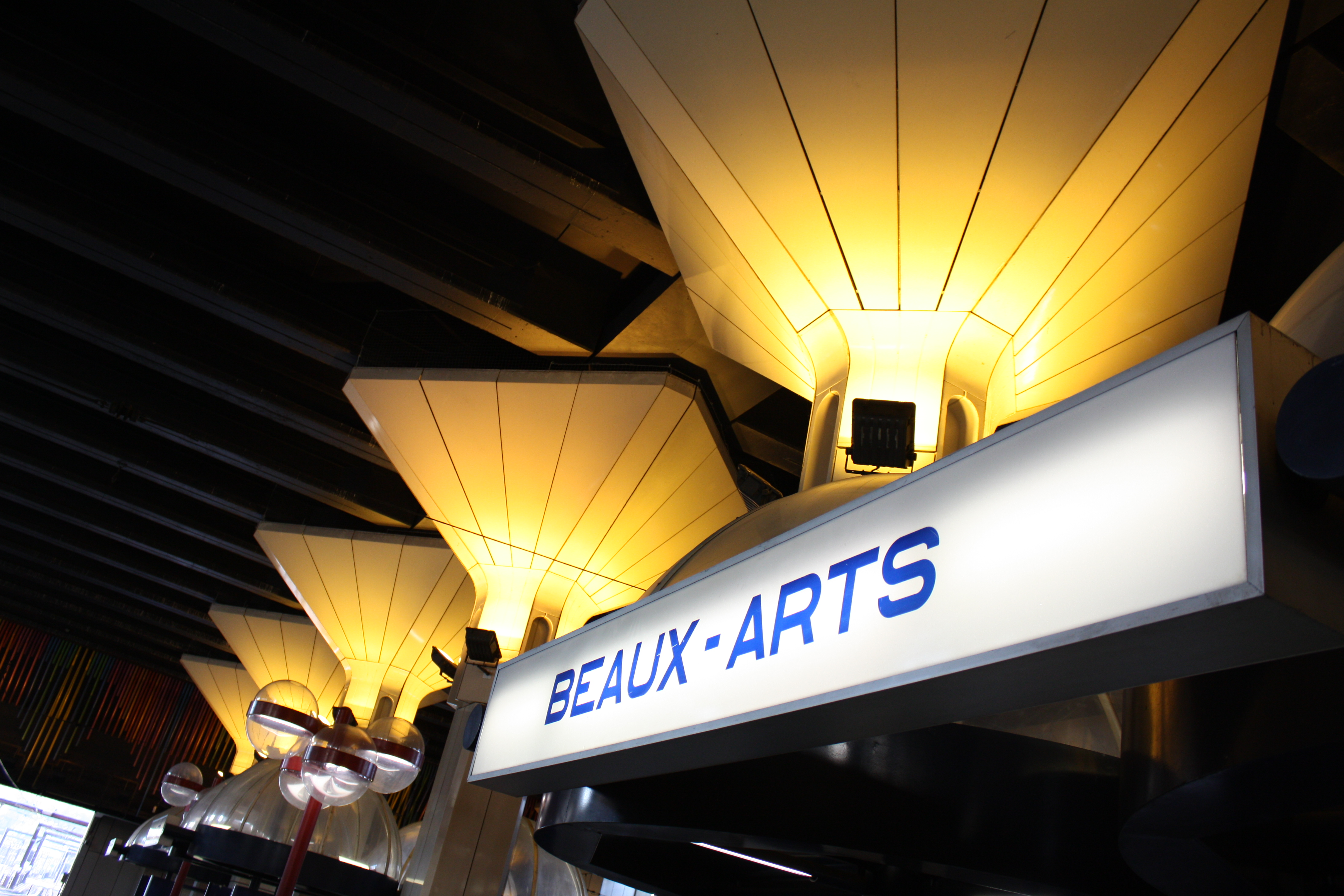 The Art-Deco interior of Beaux-Arts station Shot on 2009-09-19 on a tour of Charleroi's subway, kindly hosted by TEC-Charleroi. - OpenStreetMap(Info)